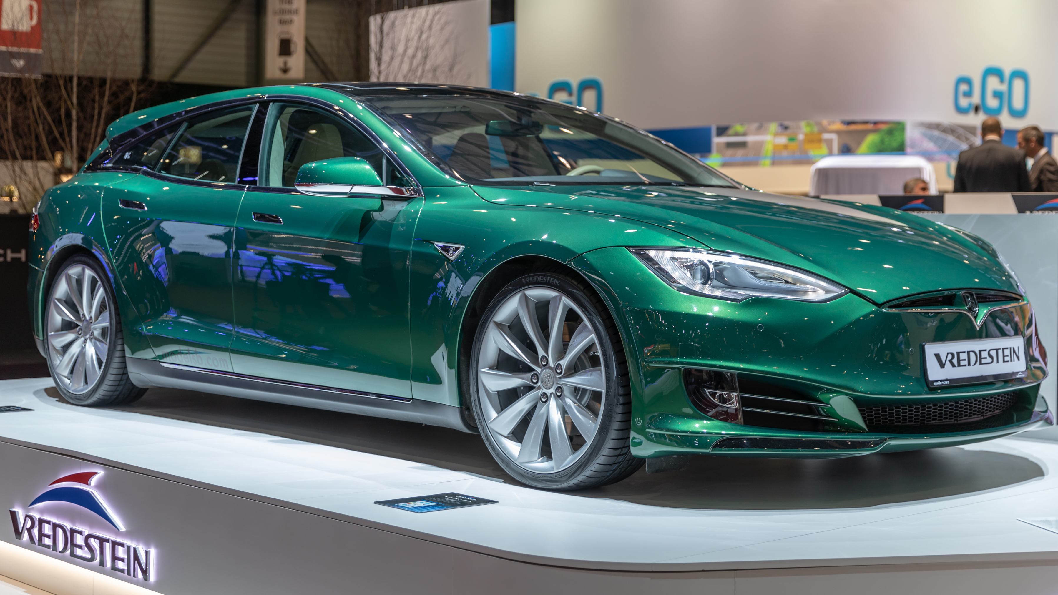 Tesla Model SB at Geneva International Motor Show 2019, Le Grand-Saconnex